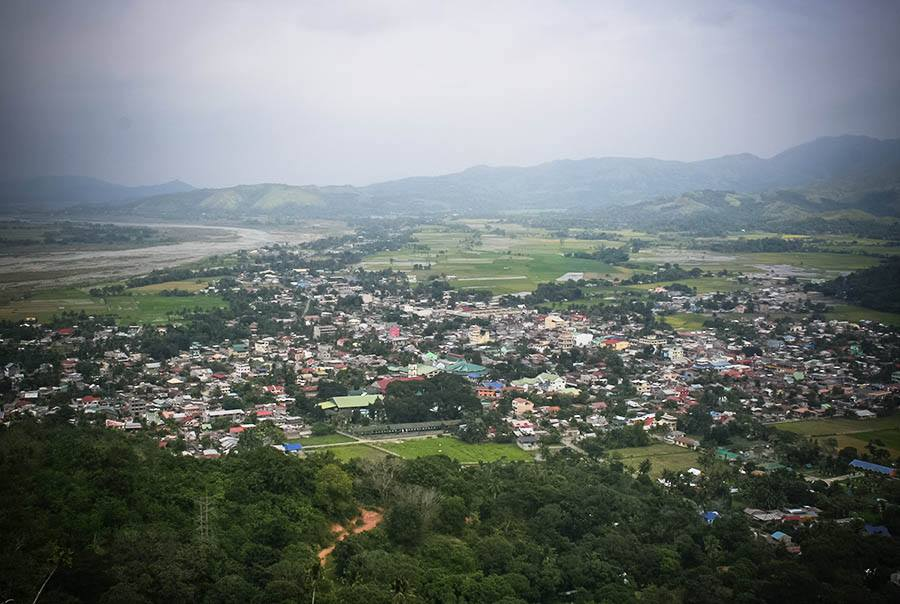 photo taken on Jan 1, 2015